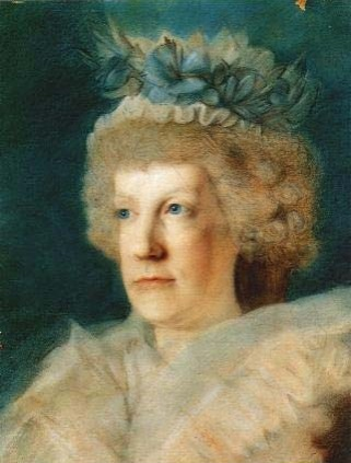 Portrait of Maria Carolina of Austria (1752-1814), Queen of Naples